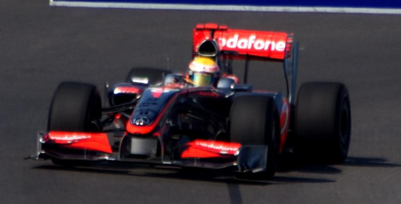 Lewis Hamilton driving for McLaren at the 2009 European Grand Prix.